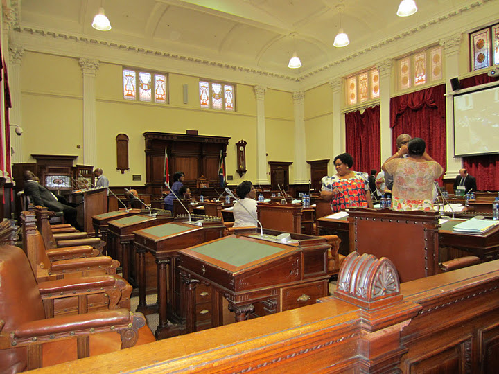 Legislative chamber at the Free State parliament. Photo taken Sen. Roberts' trip for an NCSL conference.